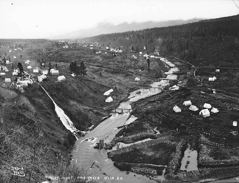 Mining operations on Pine Creek near Atlin, British Columbia, ca. 1899. The Atlin Gold Rush was an offshoot of the Klondike Gold Rush